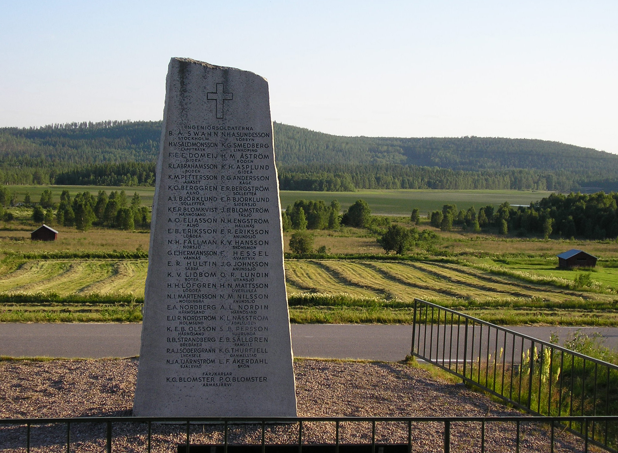 Tornevalley